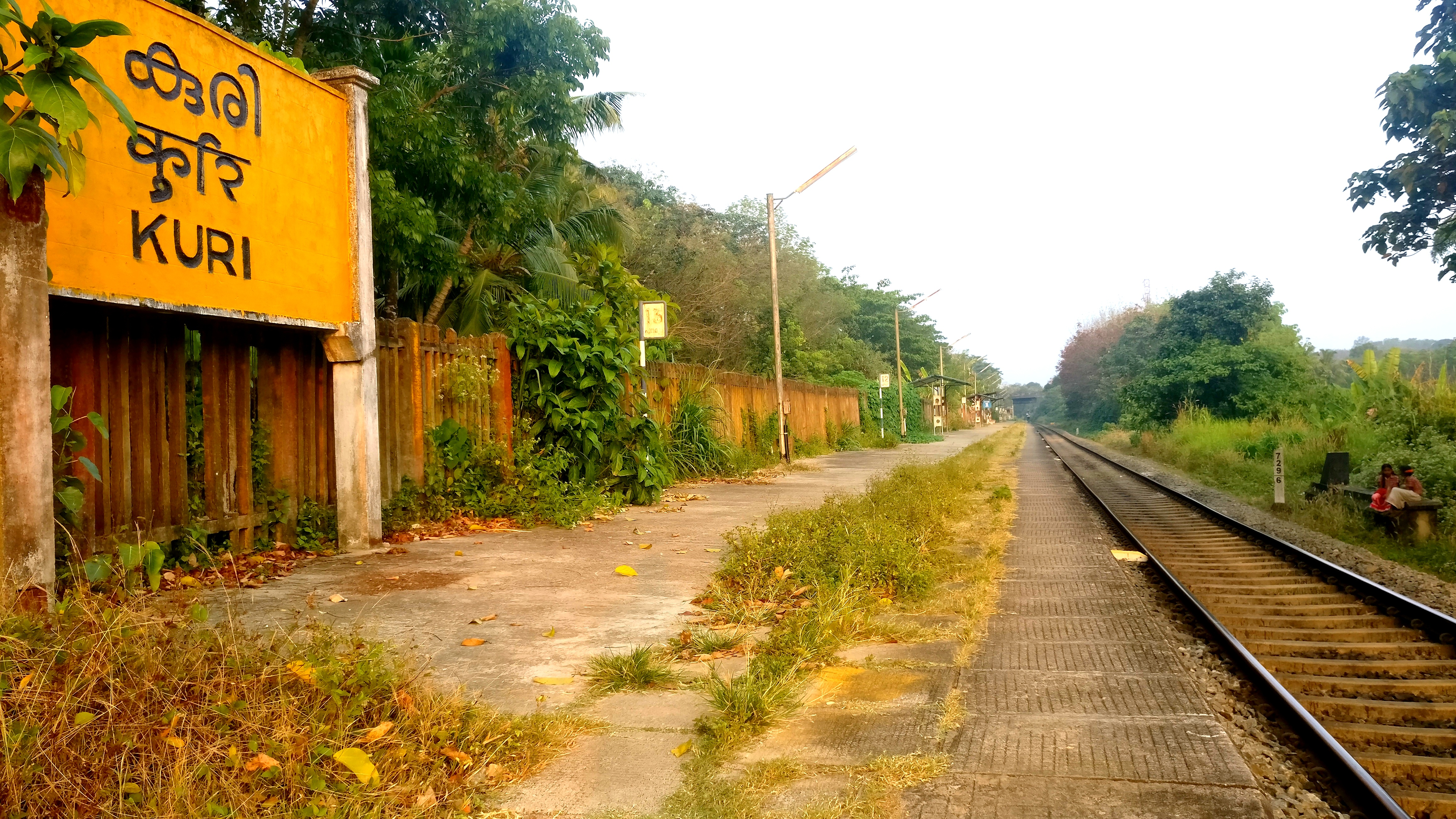 Kuri is a railway station coming in between Kottarakkara and Punalur of Kollam-Madras railway line.